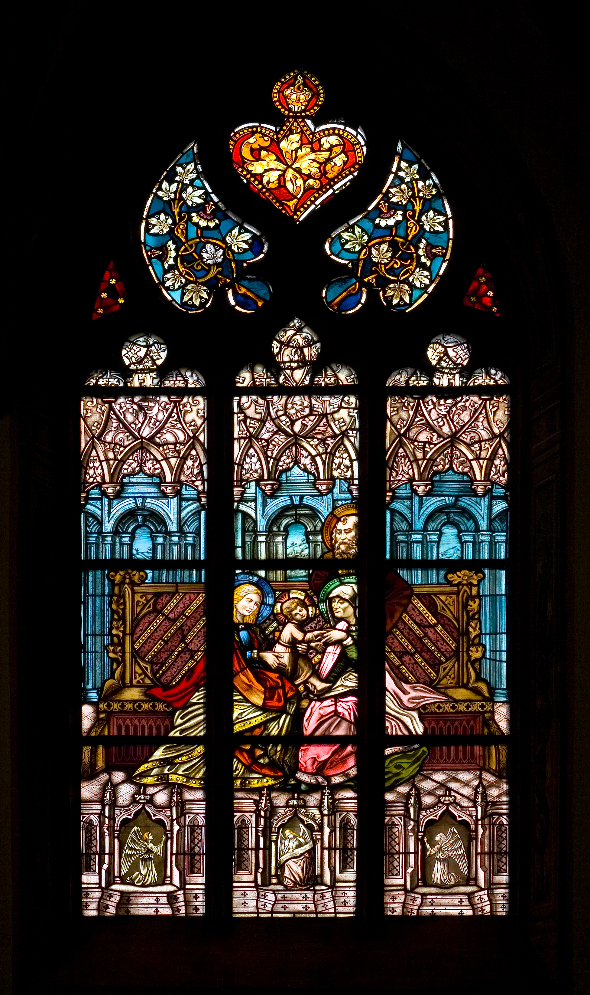 Stained glass window of the monastery church, Hirschhorn, Germany.